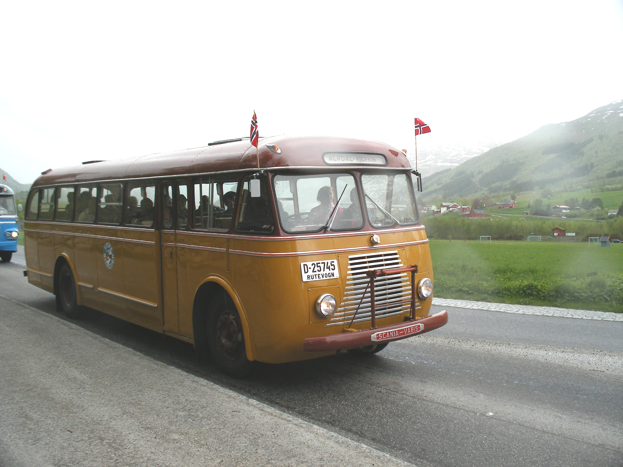 Old bus from Norway. Scania Vabis. Alvdal - Hjerkinn.